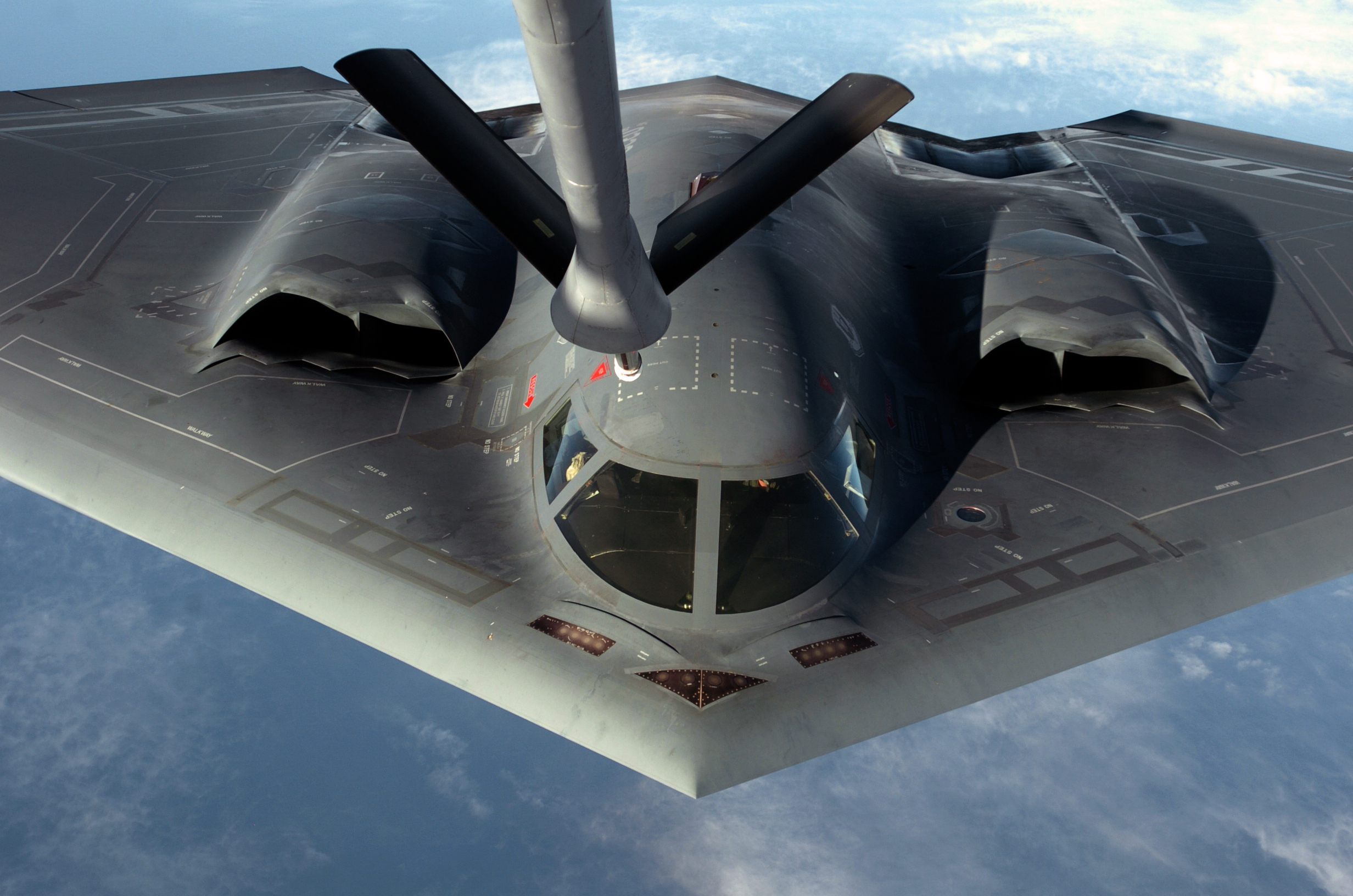 Fuel the Spirit OVER THE PACIFIC OCEAN -- A B-2 Spirit bomber prepares to refuel from a KC-135 Stratotanker during a deployment to Andersen Air Force Base, Guam. The bomber deployed as part of a rotation that has provided U.S. Pacific Command officials a continuous bomber presence in the Asia-Pacific region, enhancing regional security and the U.S. commitment to the Western Pacific. The Spirit is from the 509th Bomb Wing at Whiteman AFB, Mo. The Stratotanker is assigned to the Illinois Air National Guard's 126th Air Refueling Wing at Scott AFB.